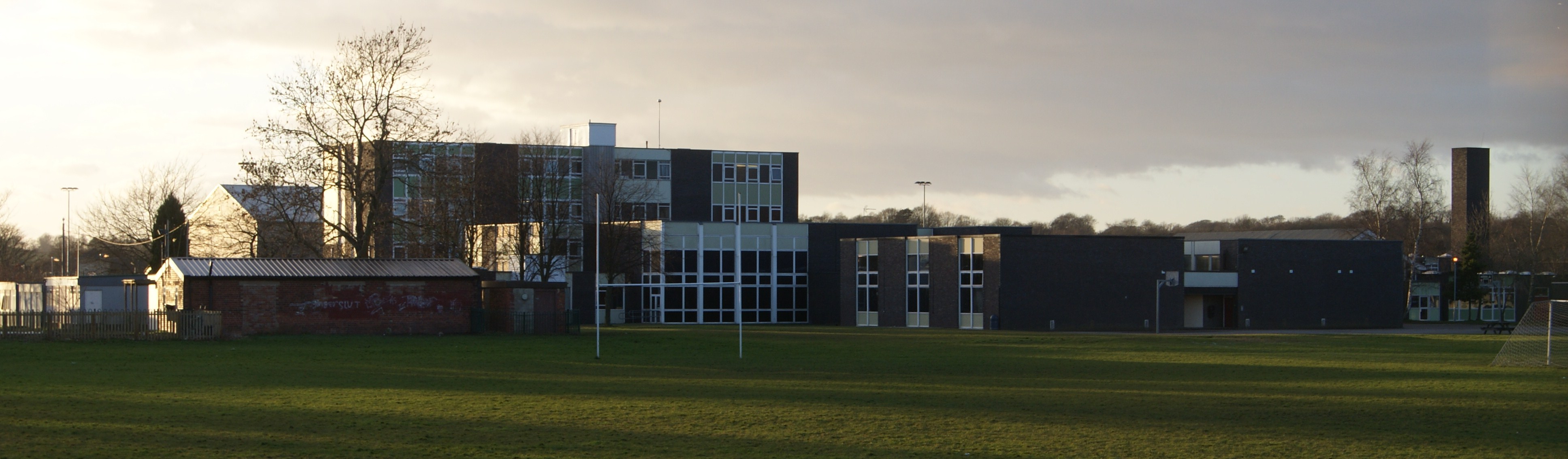 Wetherby High School (originally opened on this site as Wetherby Secondary Modern School in the 1960s) seen from Hallfield Lane in Wetherby, West Yorkshire. Taken on the evening of Wednesday the 6th of February 2013.